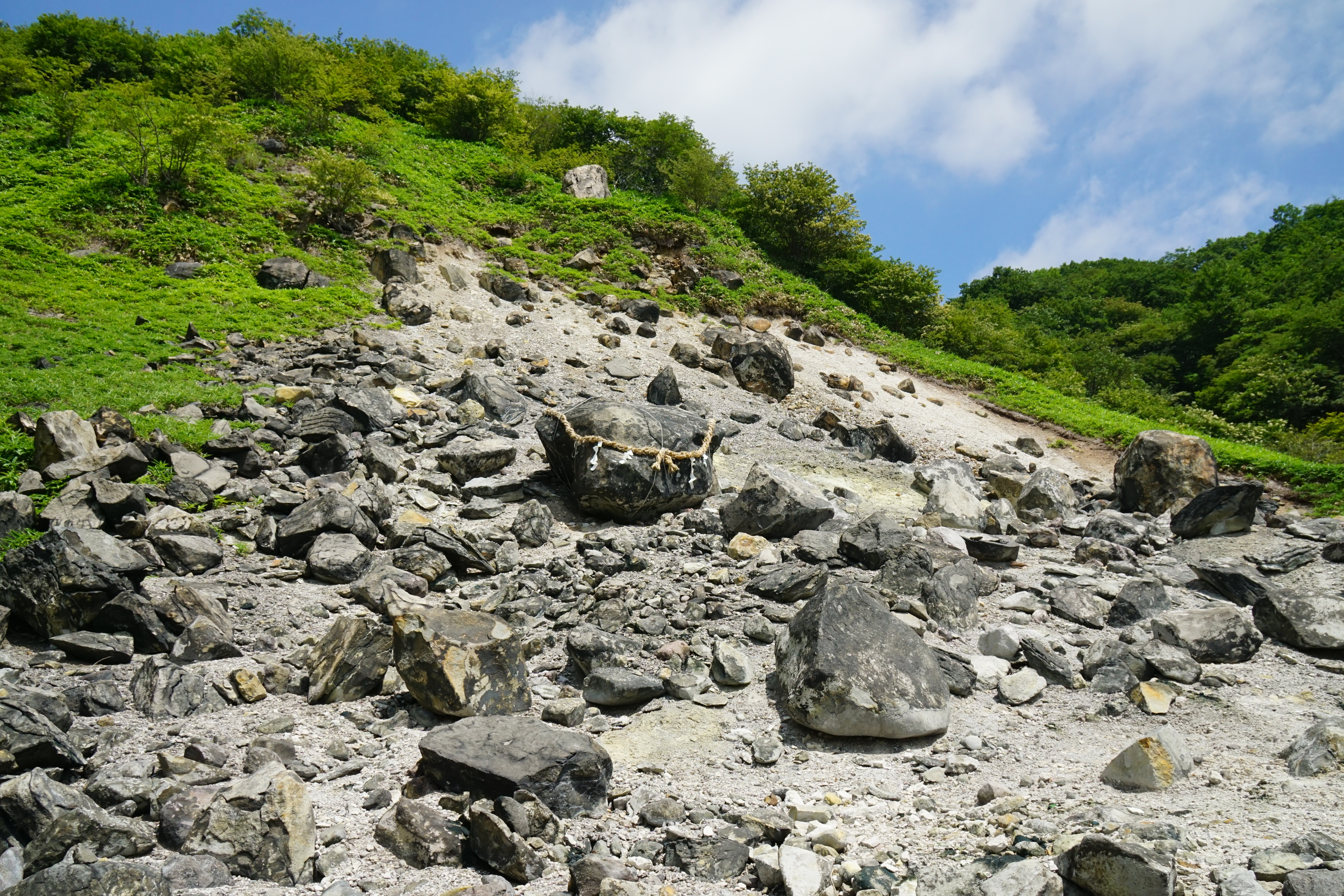 At Sesshō-seki in Nasu, Tochigi prefecture, Japan